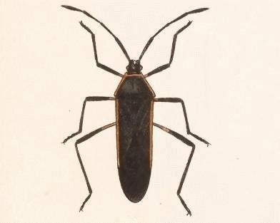 Biologia Centrali-Americana - Staluptus marginalis Cut-out from original (Biologia Centrali-Americana (8271465025).jpg) shown below